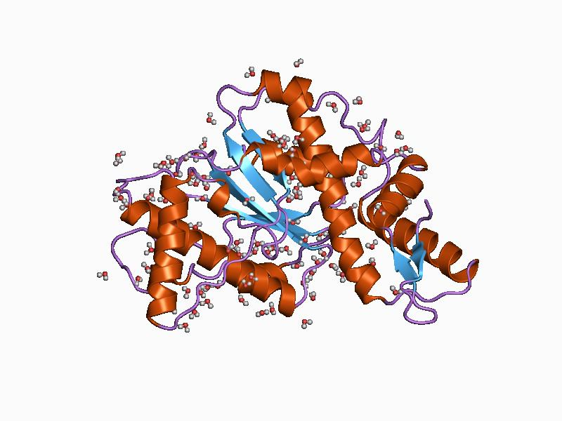 Cartoon representation of the molecular structure of protein registered with 1cfr code.